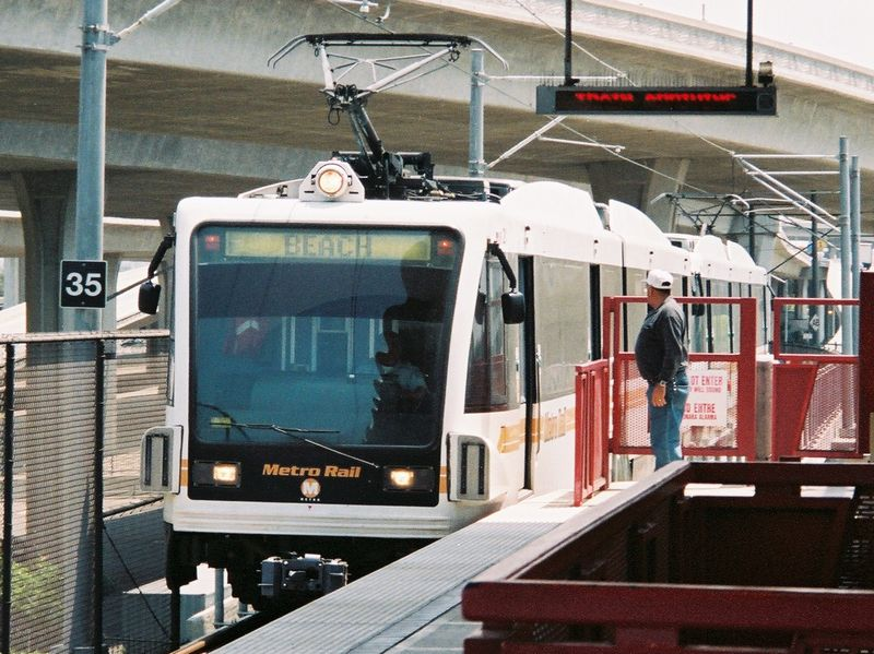 Westbound train at Aviation/LAX in May 2004